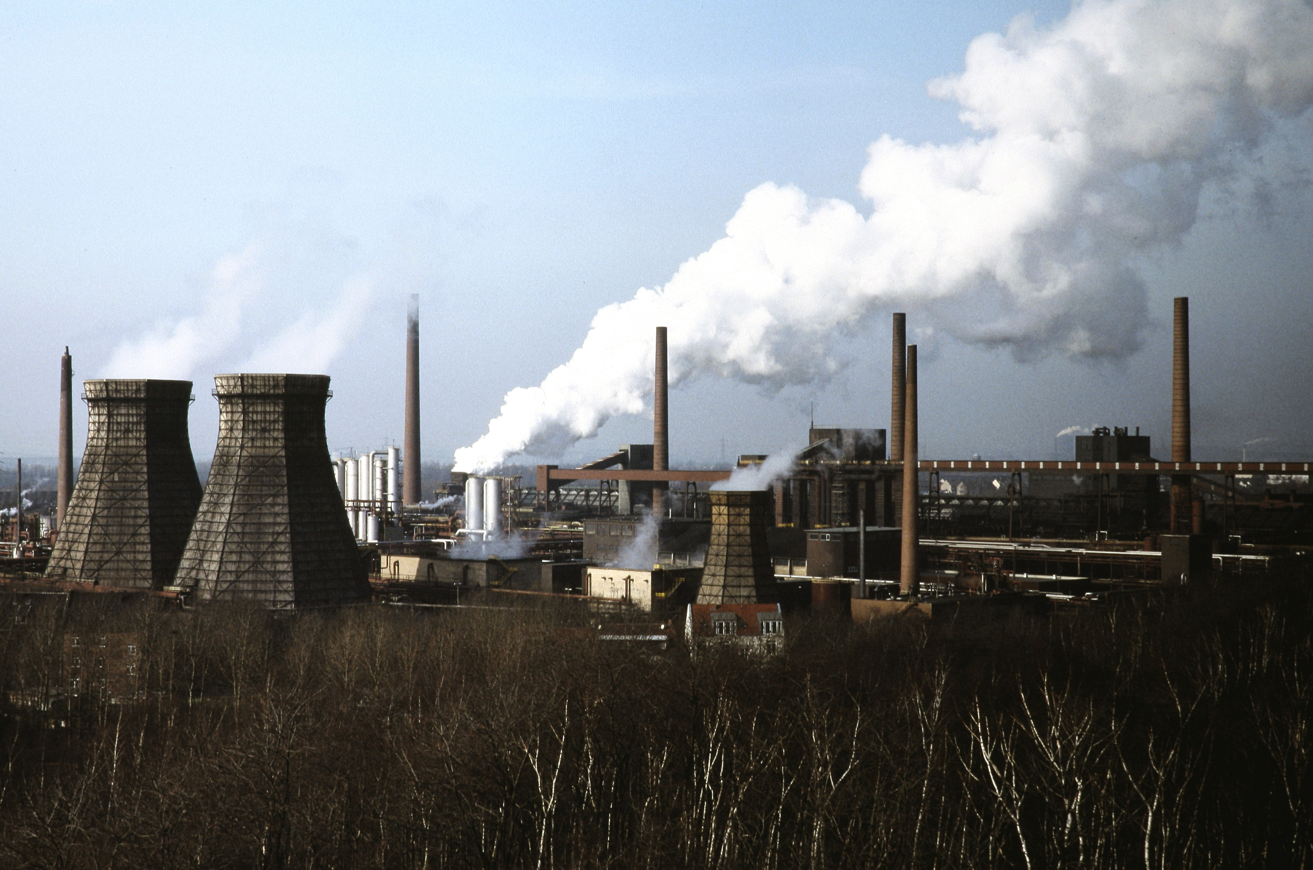 View onto Kokerei (coke plant) Zollverein from the area of mine shaft 12 during coke quenching.